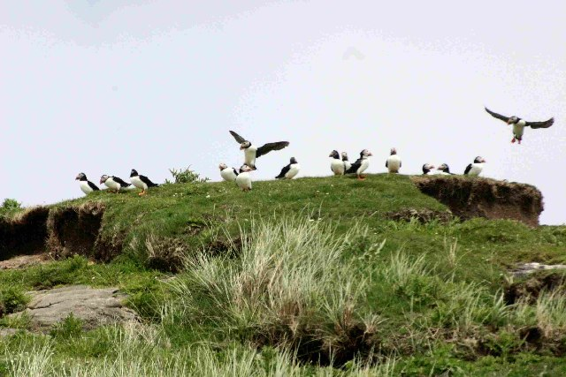 Puffins on Mingulay Mingulay is now an important site for breeding seabirds